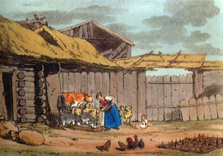 Russian Barnyard